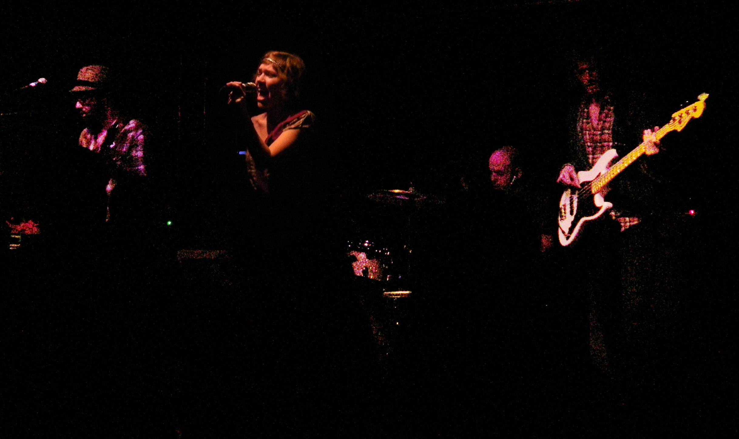 Chicago-based indie rock band Company of Thieves perform at "The Loft" in Dallas, Texas. Left to right: Marc Walloch (guitar), Genevieve Schatz (vocal), Mike Ortiz (drum), Bob Buckstaff (bass).